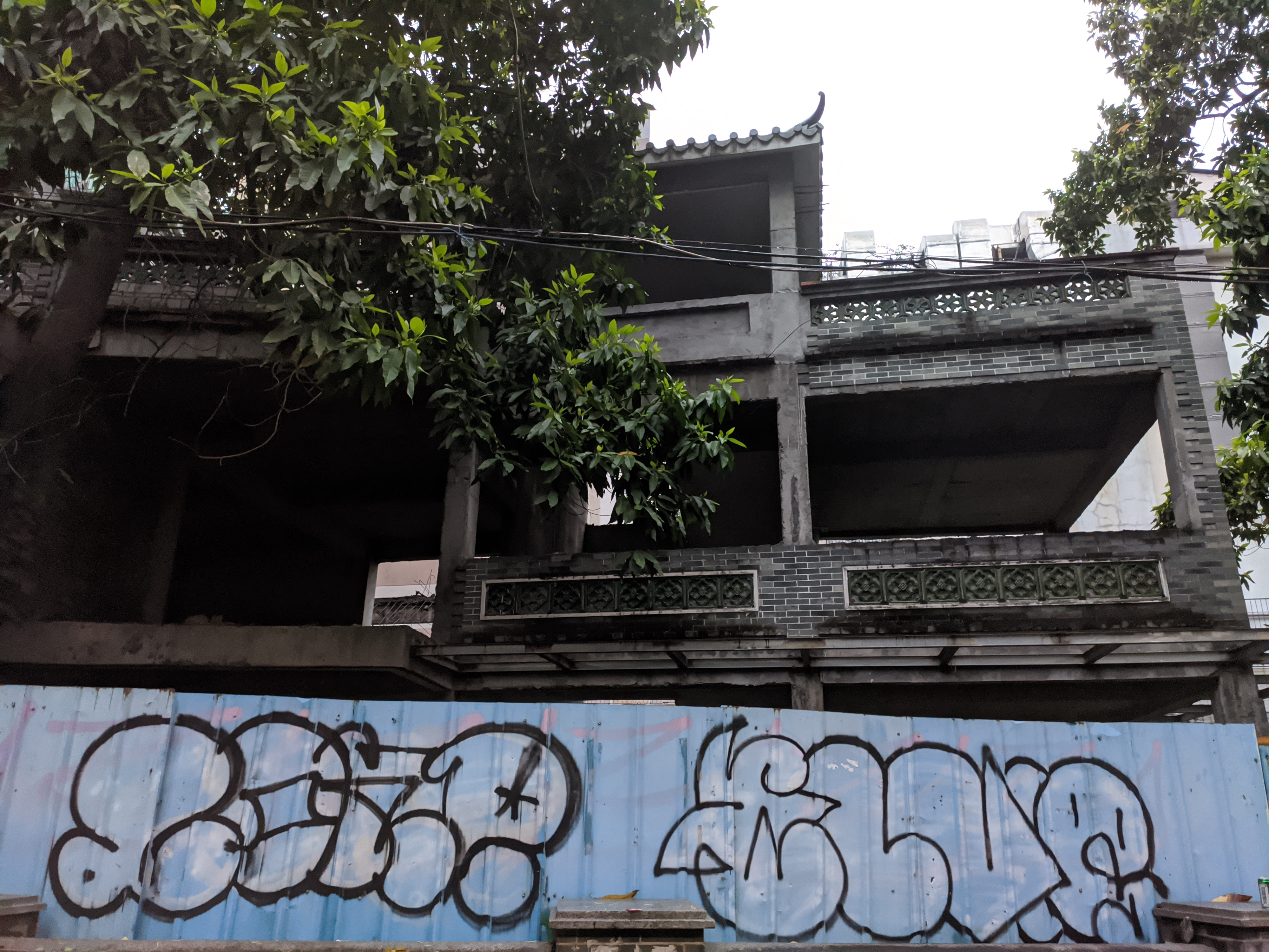 Unfinished buildings at Syu Fong Street